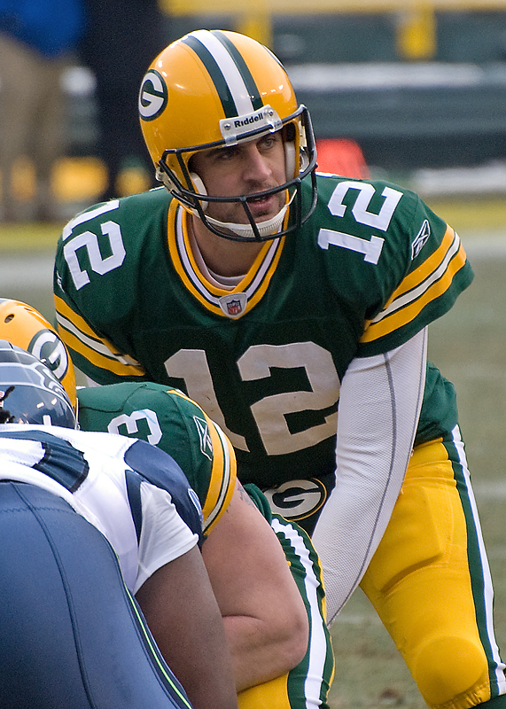 Seattle vs. Green Bay • December 27, 2009 at Lambeau Field in Green Bay, Wisconsin.